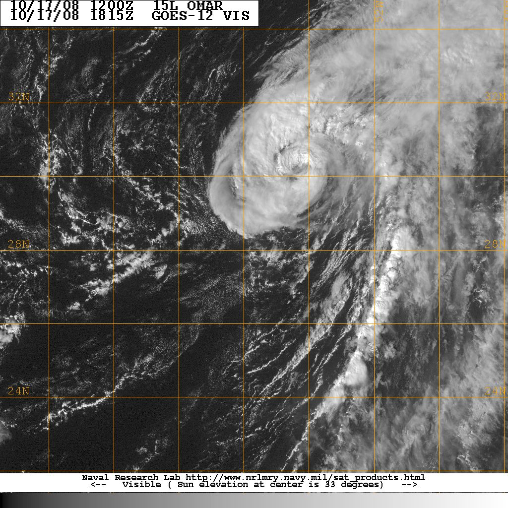 Hurricane Omar as a strong Category 1, secondary peak